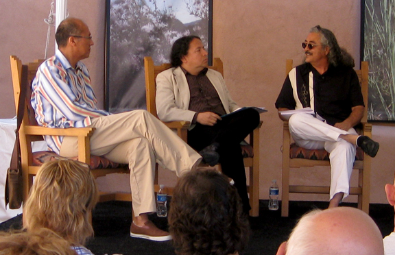 Three Native art writers, Gerald McMaster (Plains Cree-Blackfoot), Paul Chaat Smith (Comanche), and Joseph Sanchez (Mestizo), in a discussion panel, Santa Fe, New Mexico